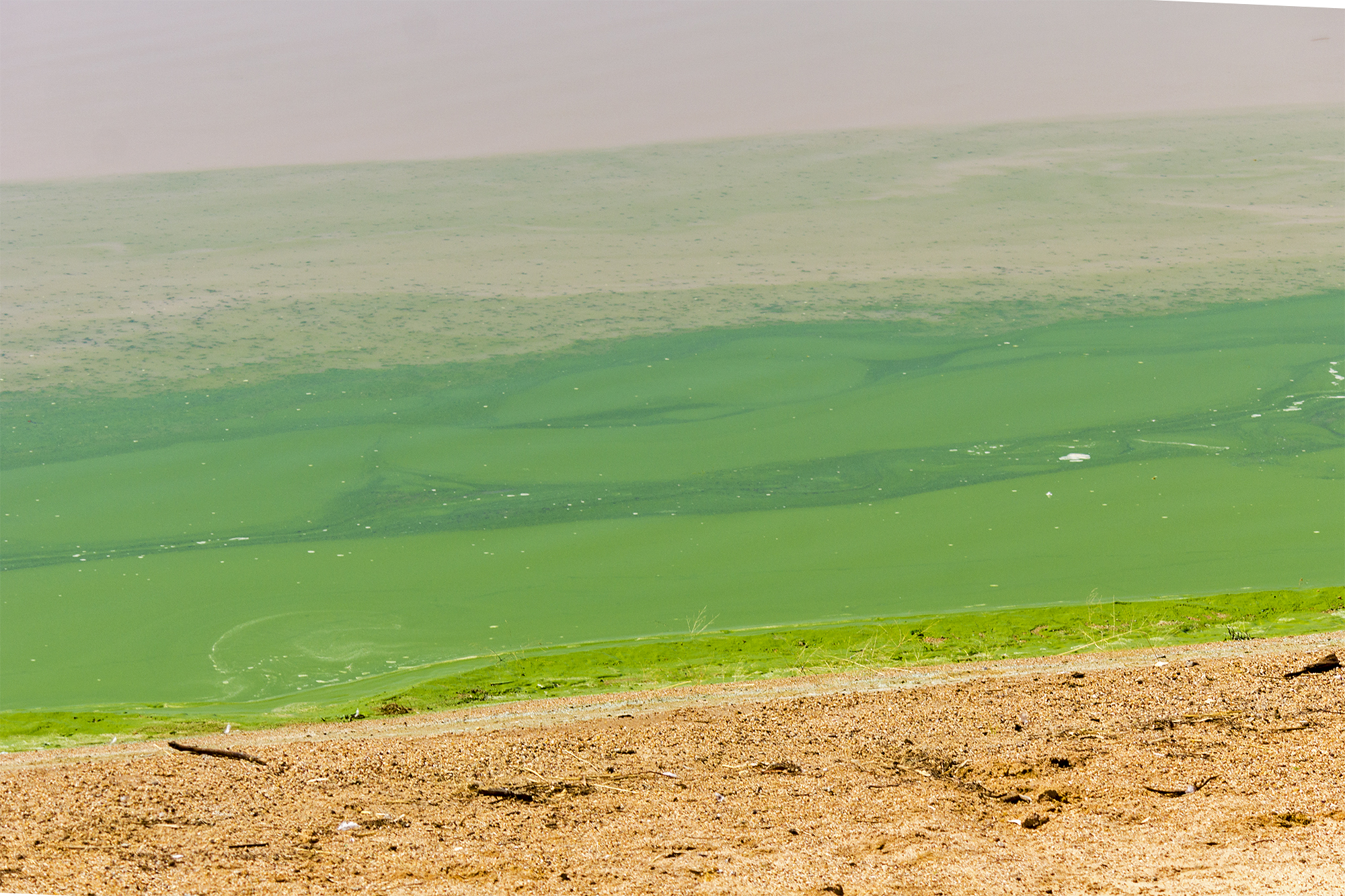 Microcystis aeruginosa outbreak on the southwest side of Lake Albert.